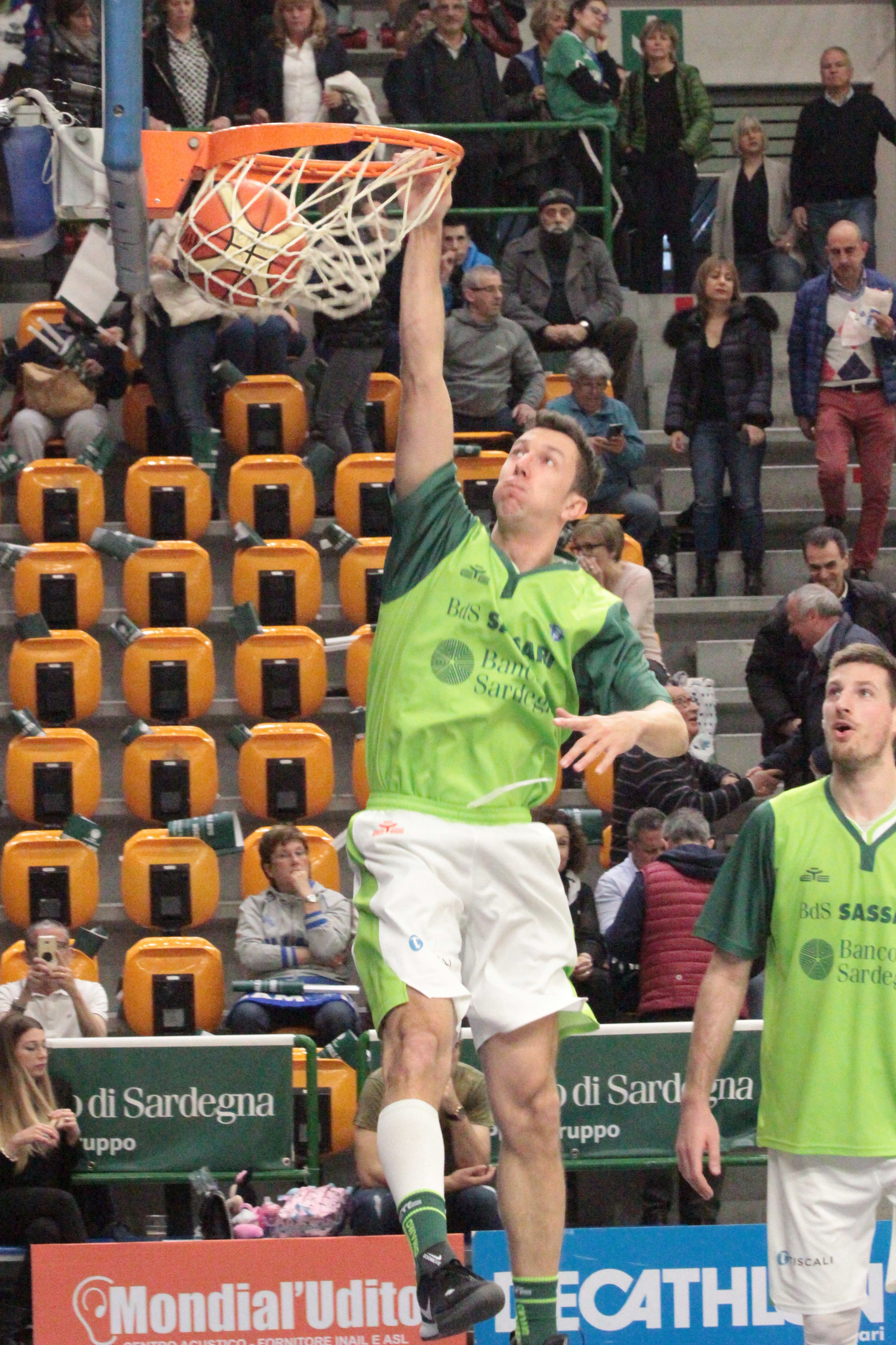 Giacomo Devecchi, captain of Dinamo Basket Sassari, in a prematch